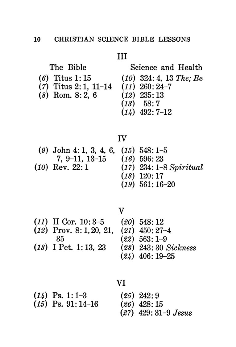 Christian Science Quarterly Bible Lesson-sermon, subject: Life, for January 20, 1918, third of three pagesBible citations indicate the book and chapter number; after the colon, are the verse numbers to read. Science & Health citations indicate first the page number; after the colon, the number indicates the line to begin reading, starting with the sentence that begins on that line and continuing to the end of the paragraph (unless an ending line number is given). Some ending line numbers are on the next page. Because there were numerous revisions of Science and Health prior to the final edition in 1910, the Quarterly italicized words for the benefit of readers still using older editions, where sentences began on different line numbers.